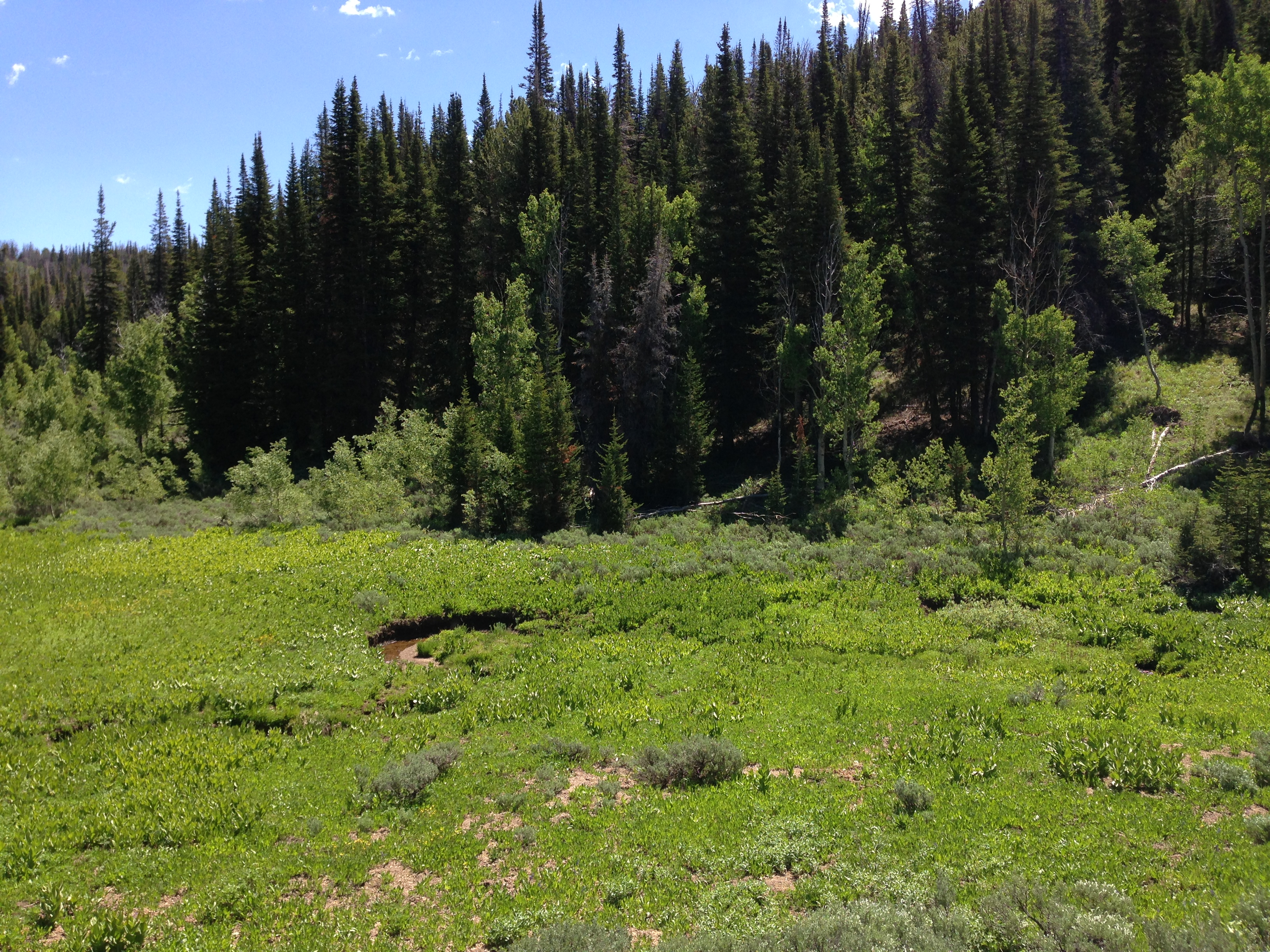 Bear Creek Meadows and adjacent Subalpine fir forest along Elko County Route 748 (Charleston-Jarbidge Road) southwest of Jarbidge, Nevada